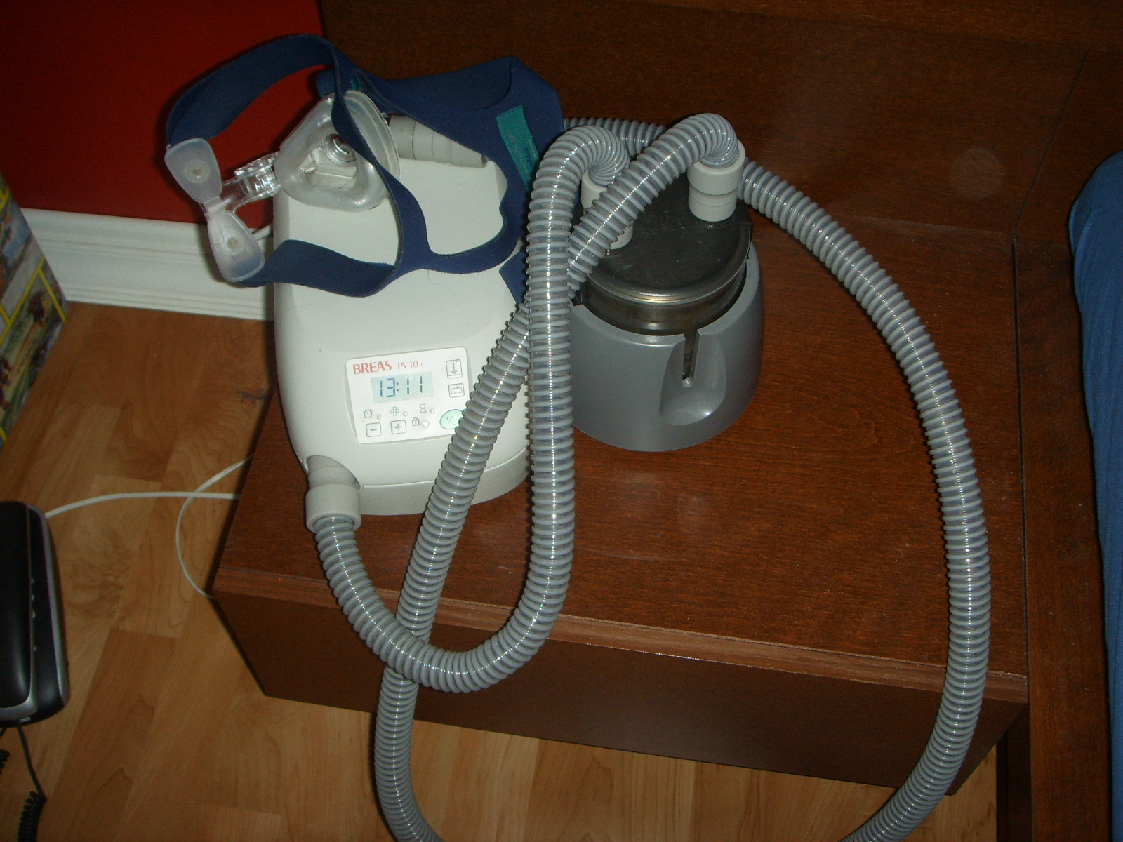 Continuous Positive Airway Pressure machine